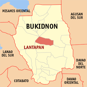 Map of the Bukidnon showing the location of Lantapan